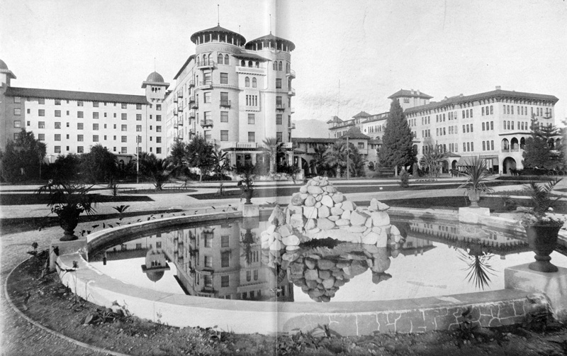 Hotel Green in 1905